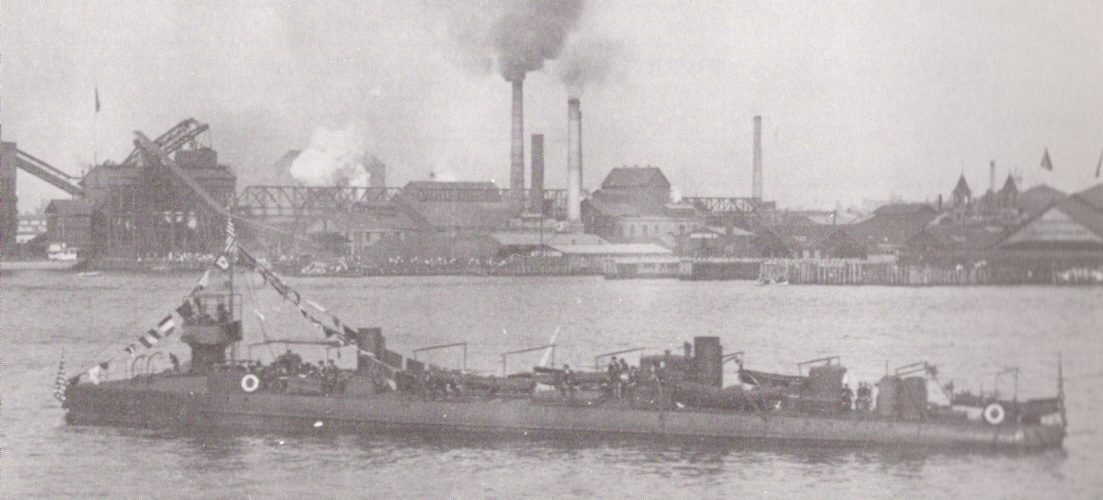 United States Navy torpedo boat USS Barney (TB-25) at Camden, New Jersey